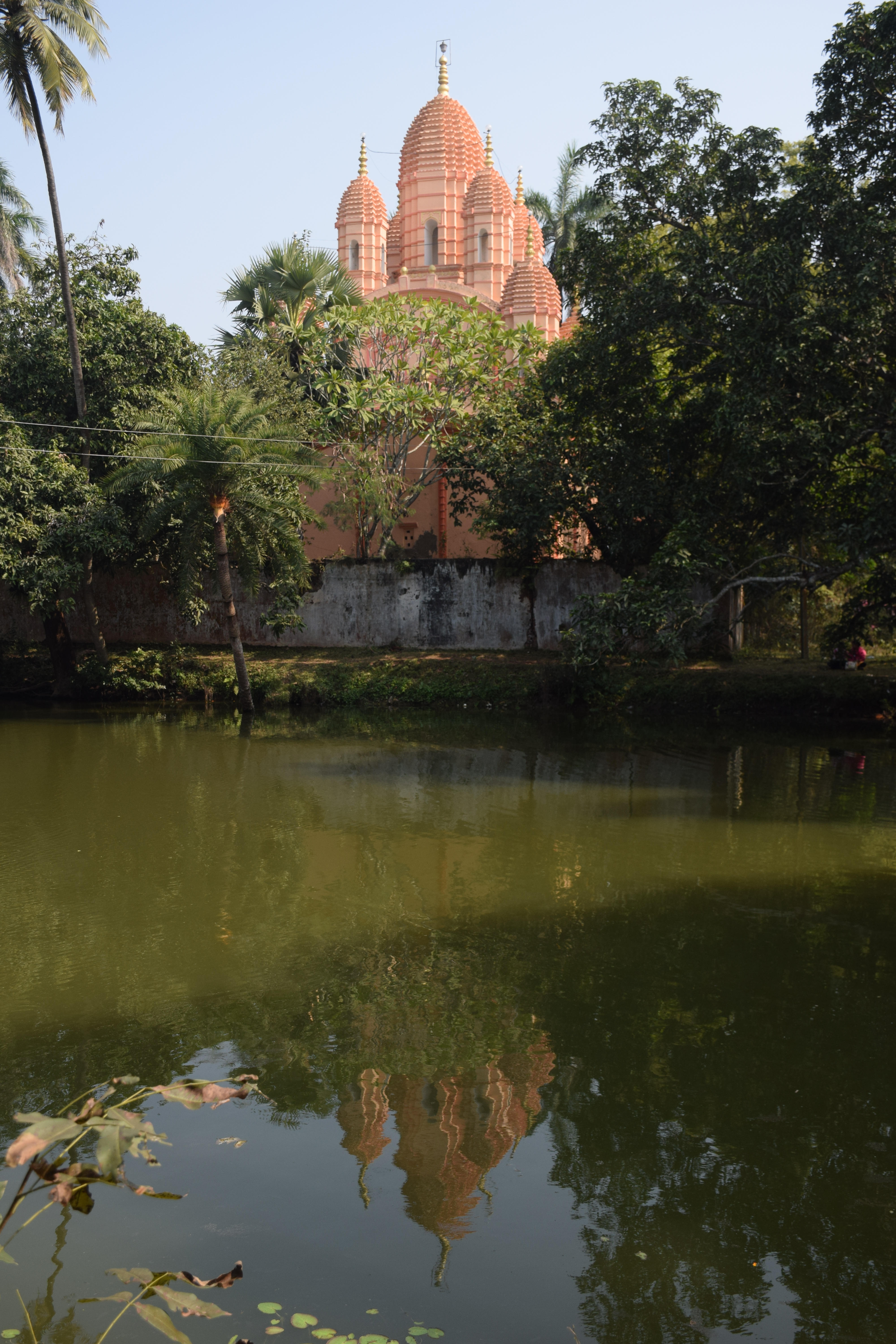 Nabaratna Gopaljiu temple inside Mahishadal Rajbari complex at Purba Medinipur district in West Bengal